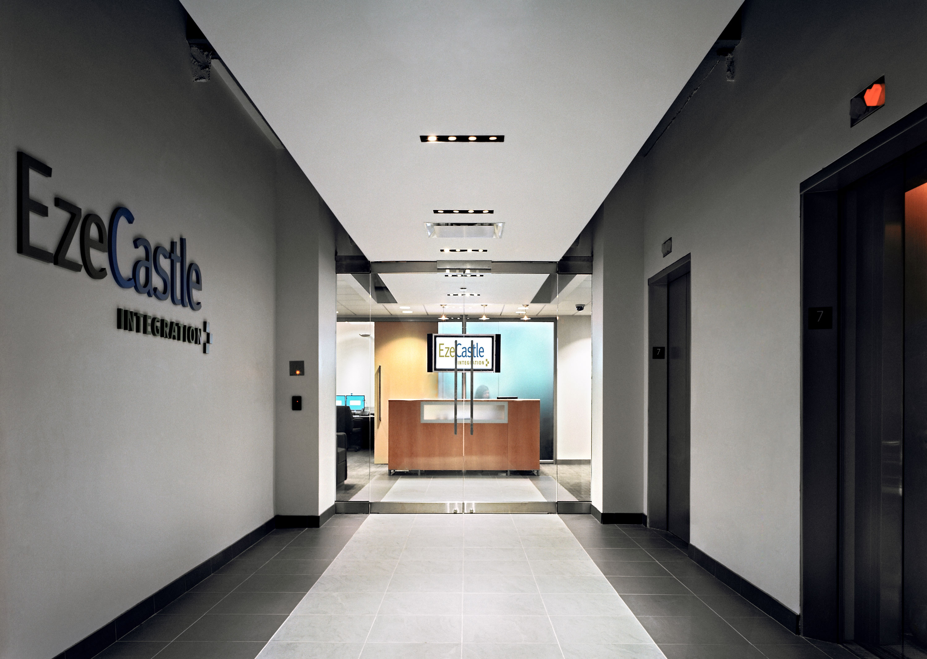 An image of Eze Castle Integration's Eze managed suites, a hedge fund Hotel in New York City.